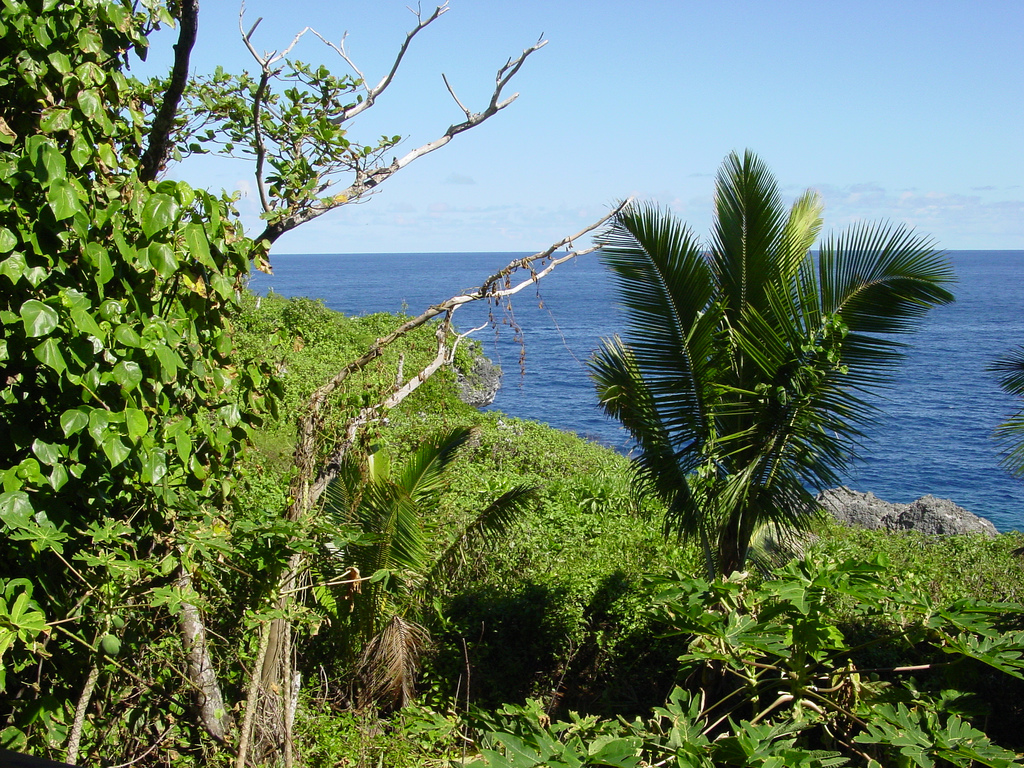 View from Fale #4, Coral Gardens Motel, Makapu Point, NIUE.